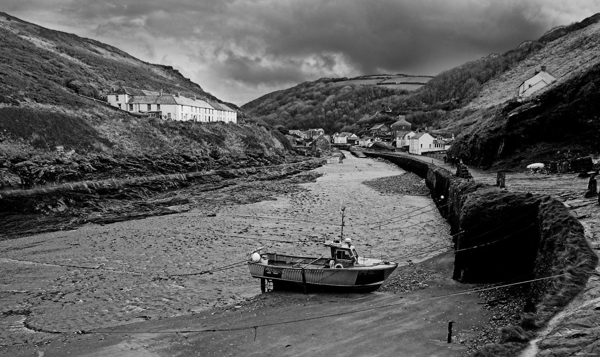 Boscastle in Cornwall. Photographer:Srsteel. uploaded by Srsteel. available online at